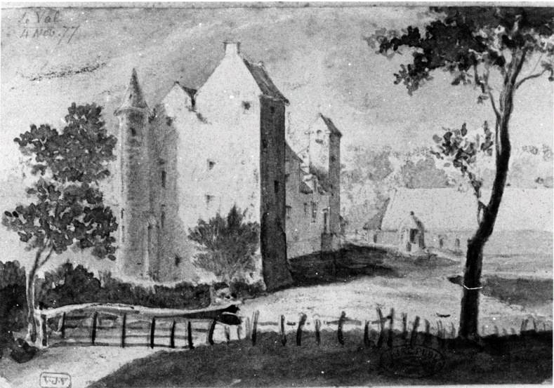 drawing of the farm of the Val - Edouard Vaillant 1877